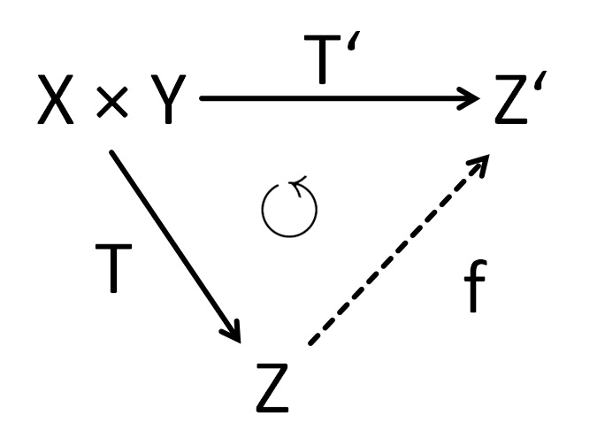 Tensor product mapping diagram